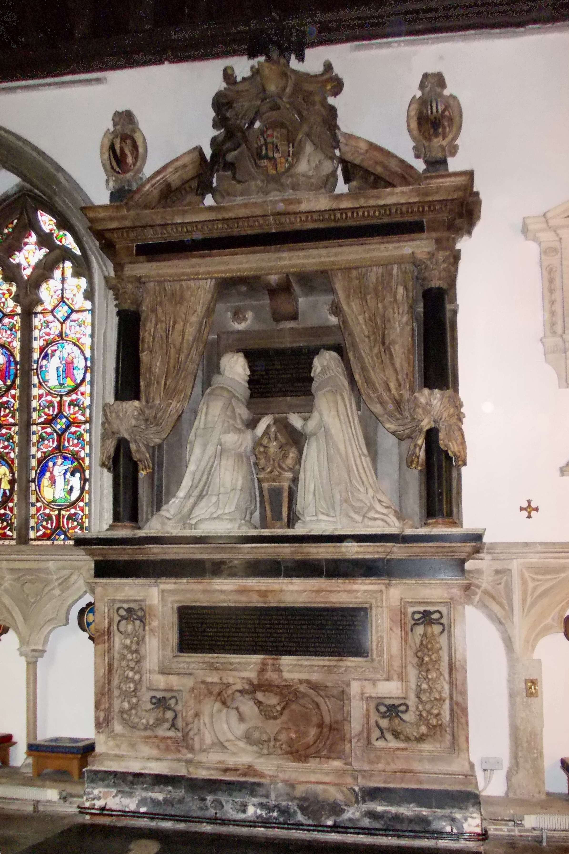 Mural monument to Thomas Knyvet, 1st Baron Knyvet (1545-1622), Stanwell Church, Surrey. For a detailed description of the monument and heraldry see: Gentleman's Magazine, Vol.64, 1794, Part I, pp.313-14, Monument of Thomas Lord Knyvett at Stanwell [1]